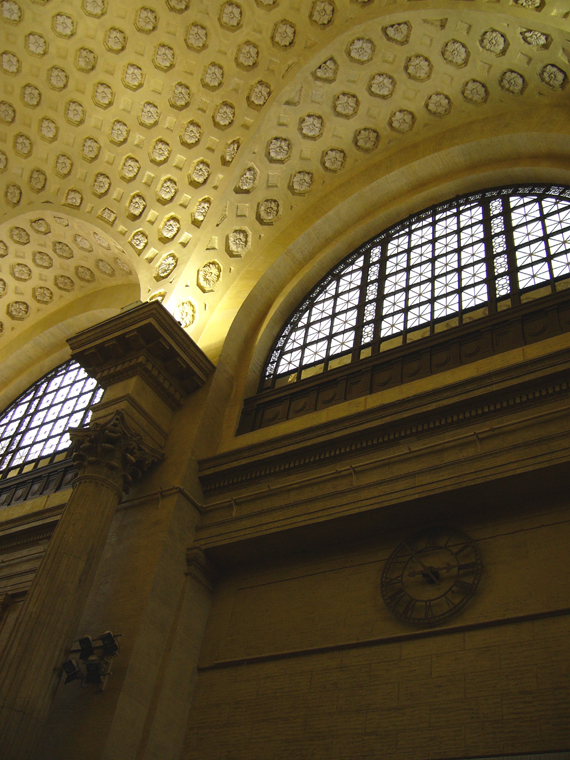 Interior details of the Waiting room of Ottawa's Union Train Station.